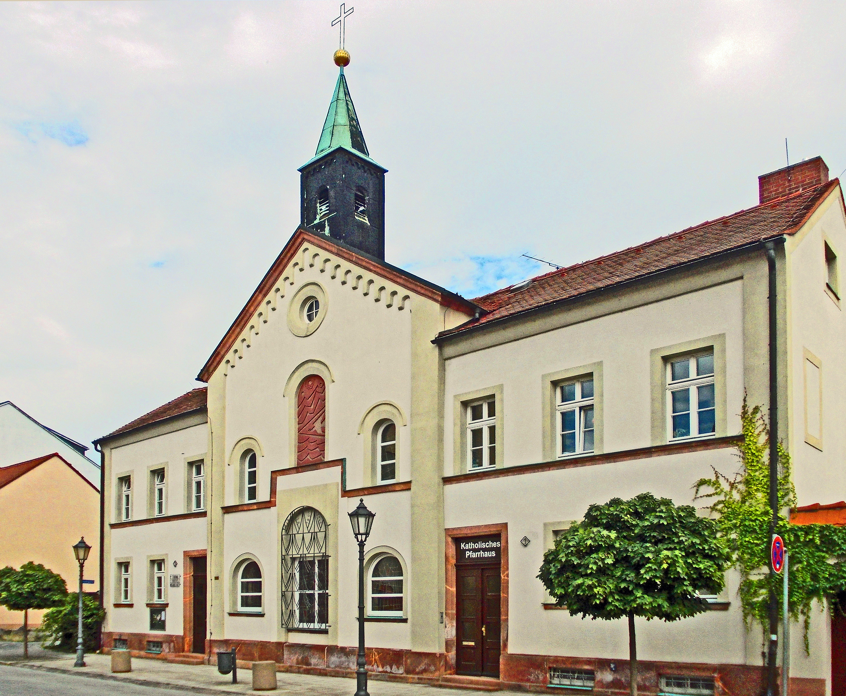 Roman Catholic Holy Trinity Church in Grimma 8Leipzig district, Saxony)